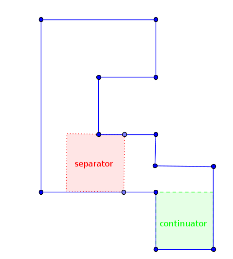 Every square in a simple rectilinear polygon is either a separator or a continuator.